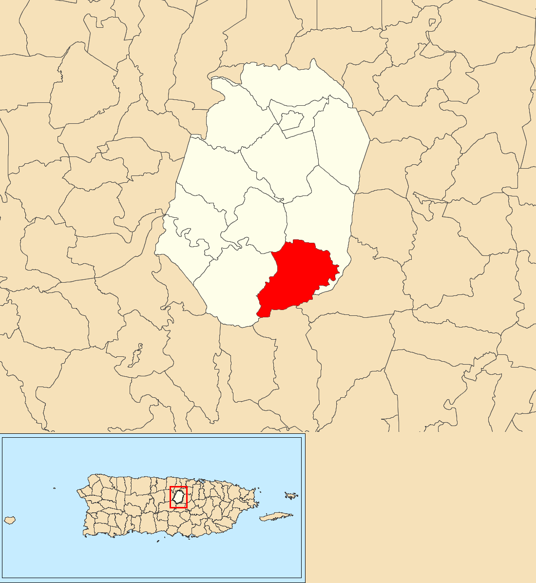 Maná, Corozal, Puerto Rico locator map